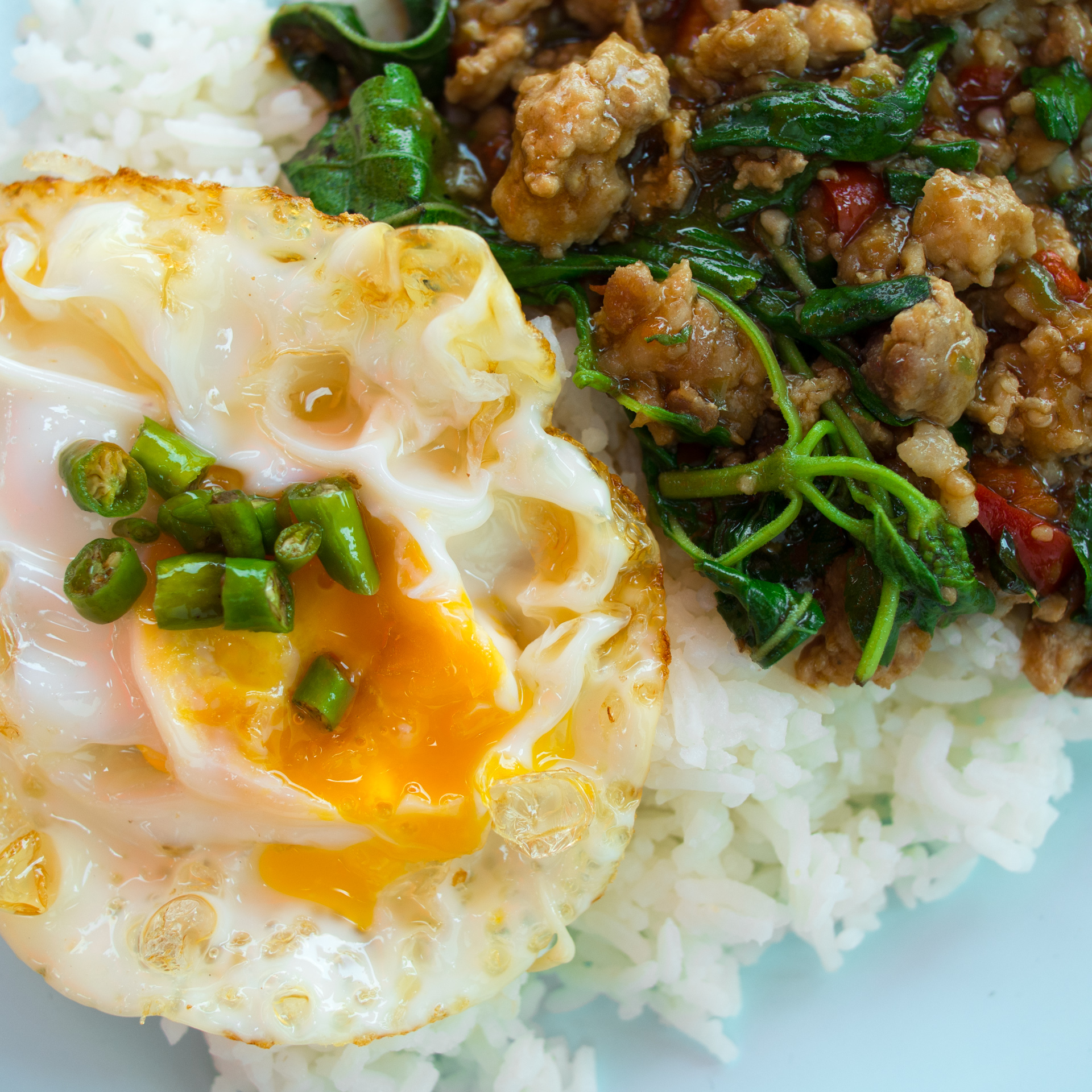 Kraphao mu khai dao (Thai script: กะเพราหมูไข่ดาว) is basil-fried minced pork served with a fried egg and steamed rice. The green bits on top of the egg yolk are sliced bird's eye chillies. This is one of the most popular quick meals in Thailand.